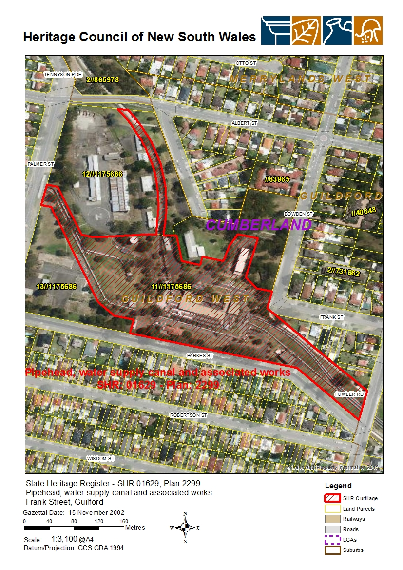 Guildford West pipehead and water supply canal: SHR Plan 2299